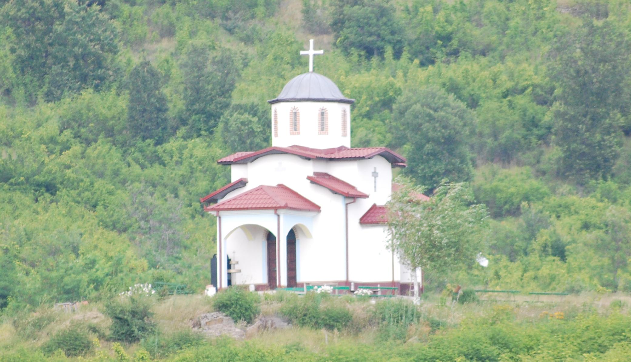 The main monastery church St. Elijah in Kalnište, Macedonia